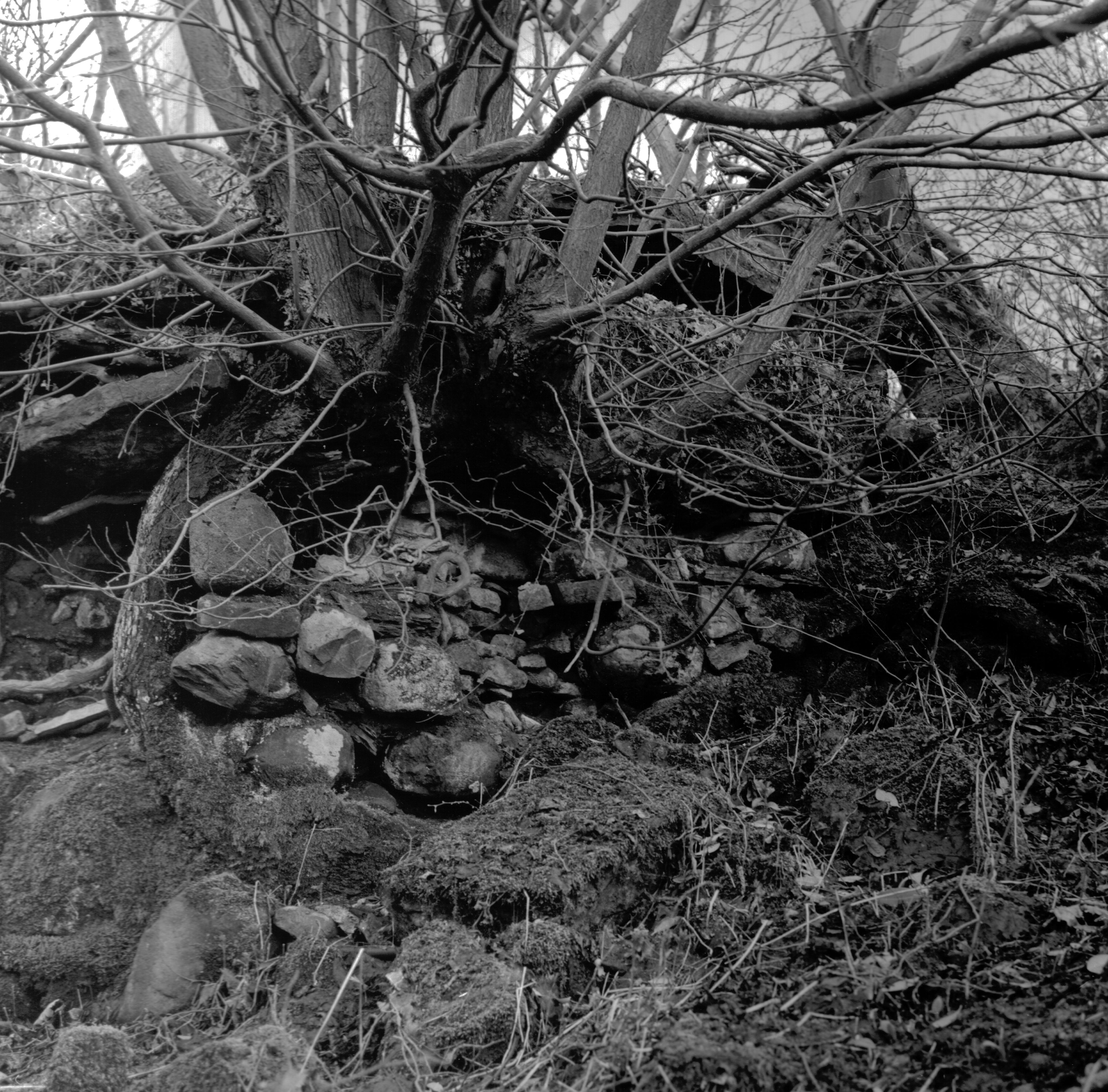 The Eglinton Ice House prior to restoration